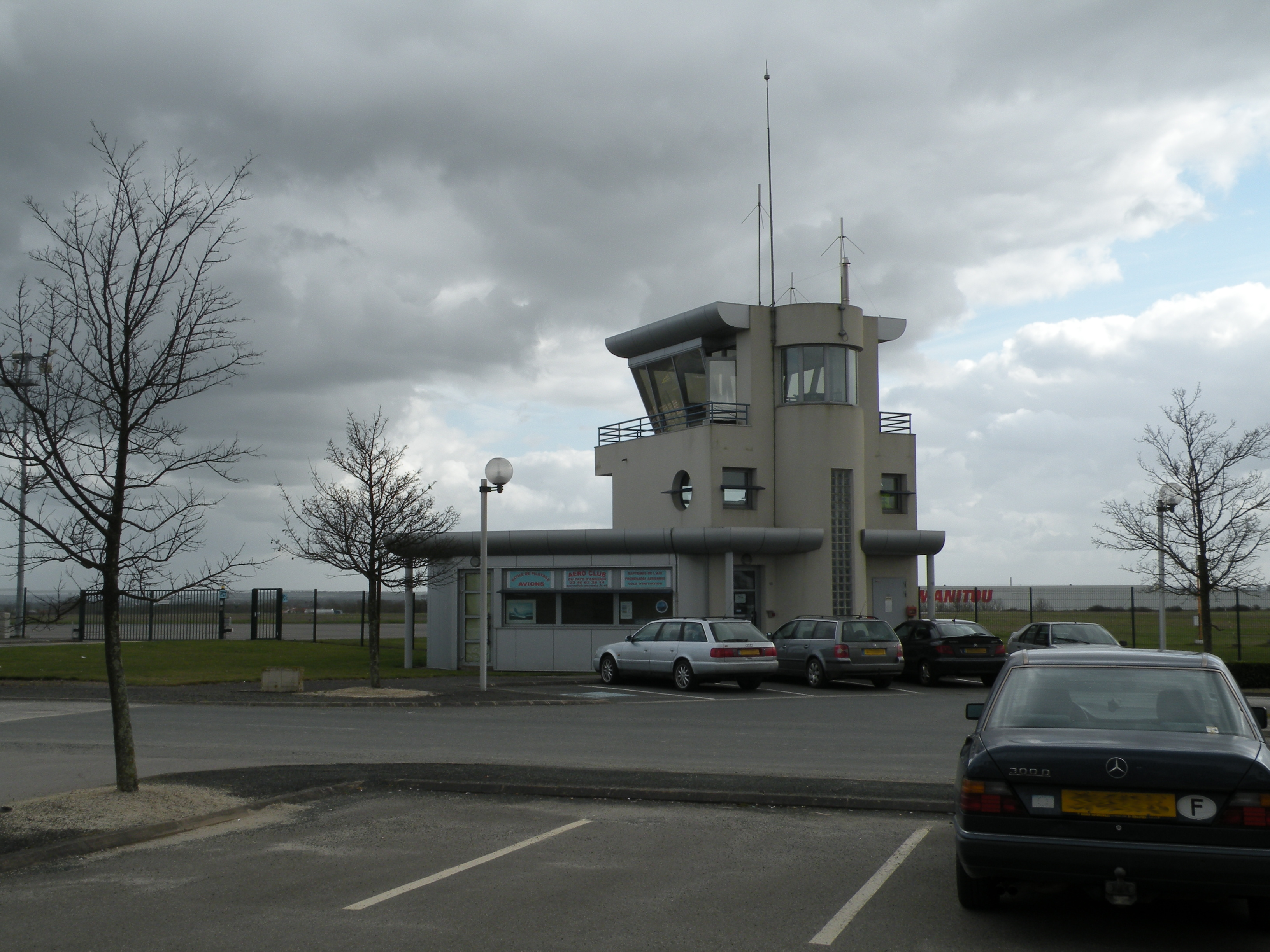 Aerodrome of Ancenis